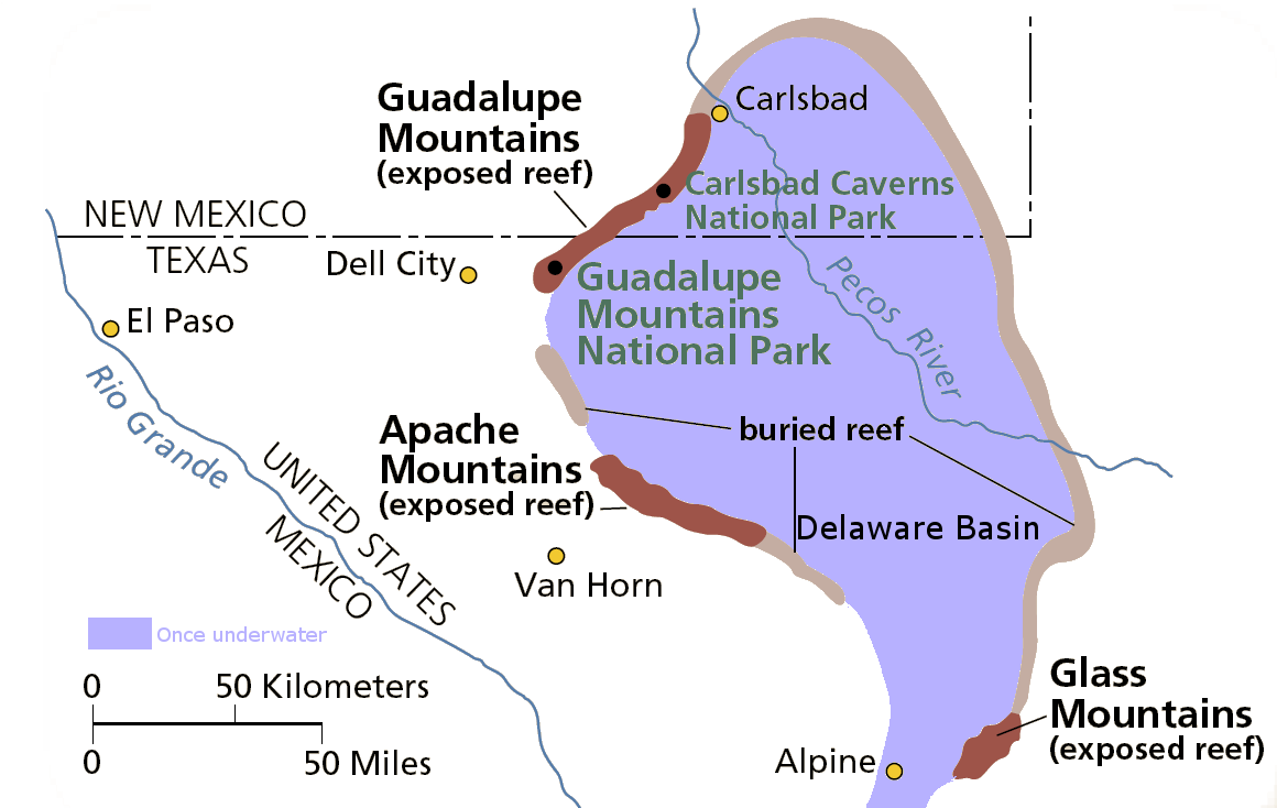 Map of the Delaware Basin — a geologic depositional and structural basin in West Texas and southeastern New Mexico. It is part of the larger Permian Basin, itself contained within the Mid-Continent oil province. Guadalupe Mountains National Park and Carlsbad Caverns National Park protect part of the basin.